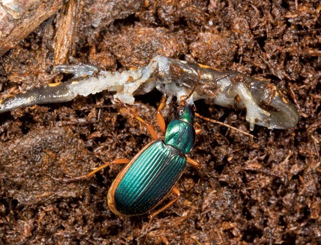 Coleoptera Epomis dejeani eating a Southern banded newt (Ommatotriton vittatus)